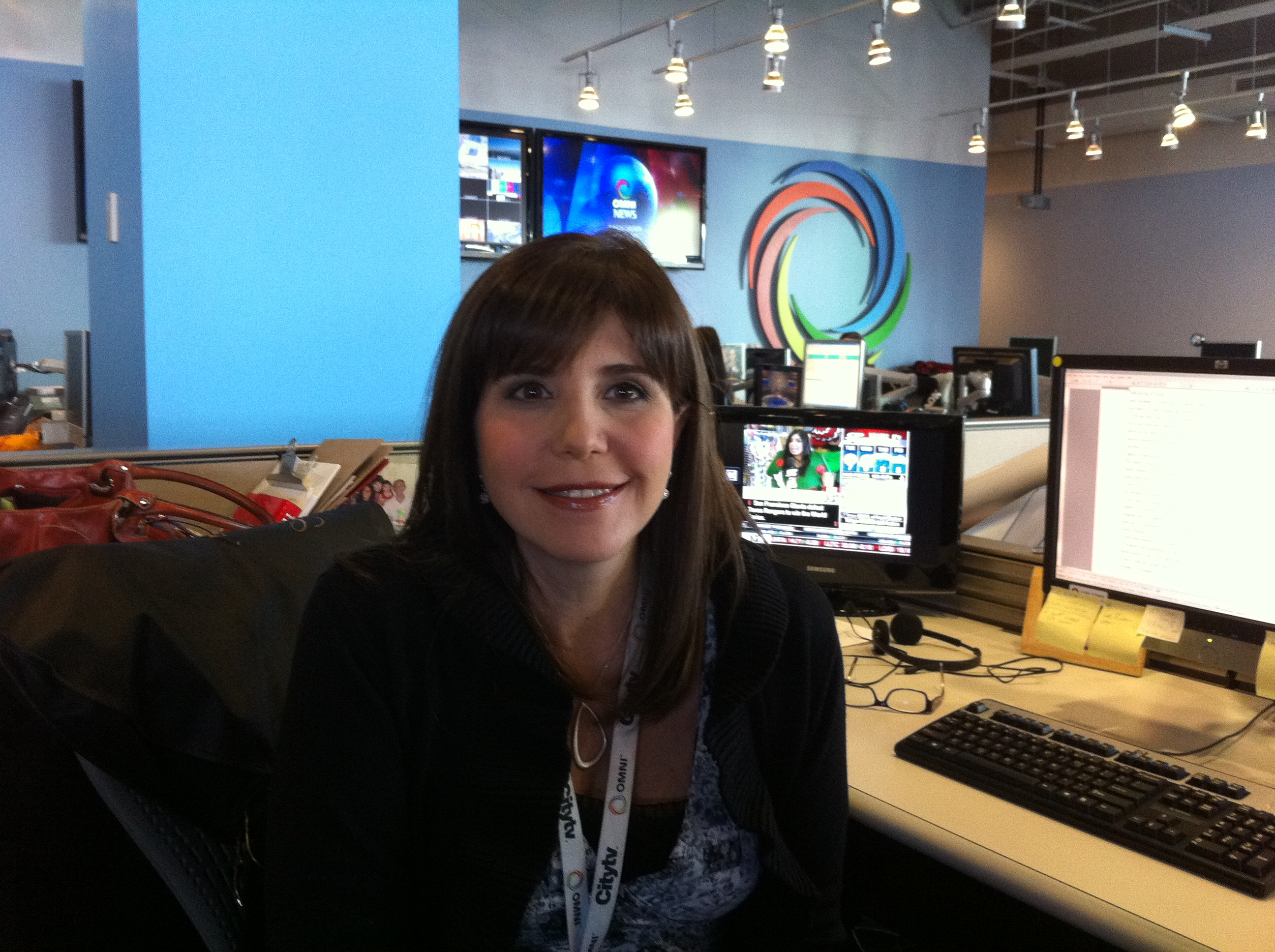 Host Daniela Sanzone in the Omni Newsroom